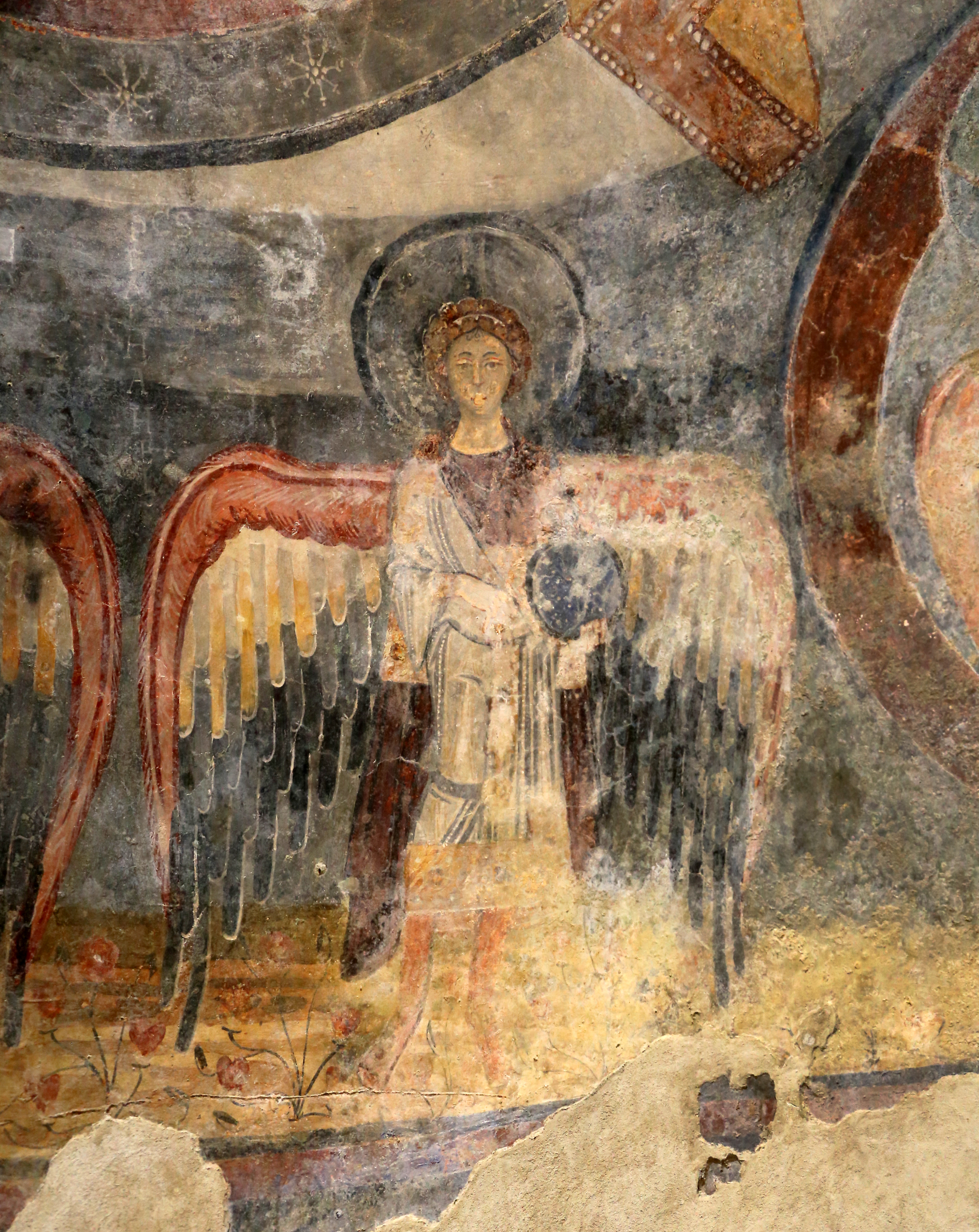 Fresco at Epifanio Crypt, which has been identified with the Archangel Raphael. Reference: La cripta di Epifanio a S. Vincenzo al Volturno by Franco Valente.